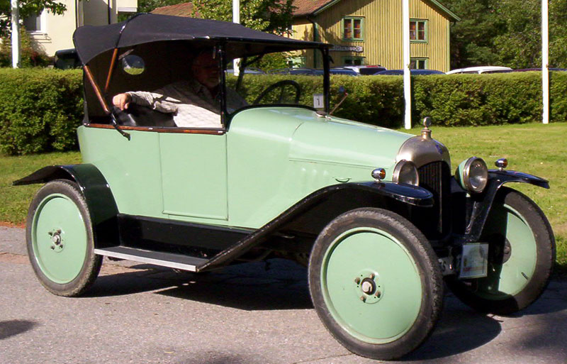 Citroen A 8 CV Torpedo 1919